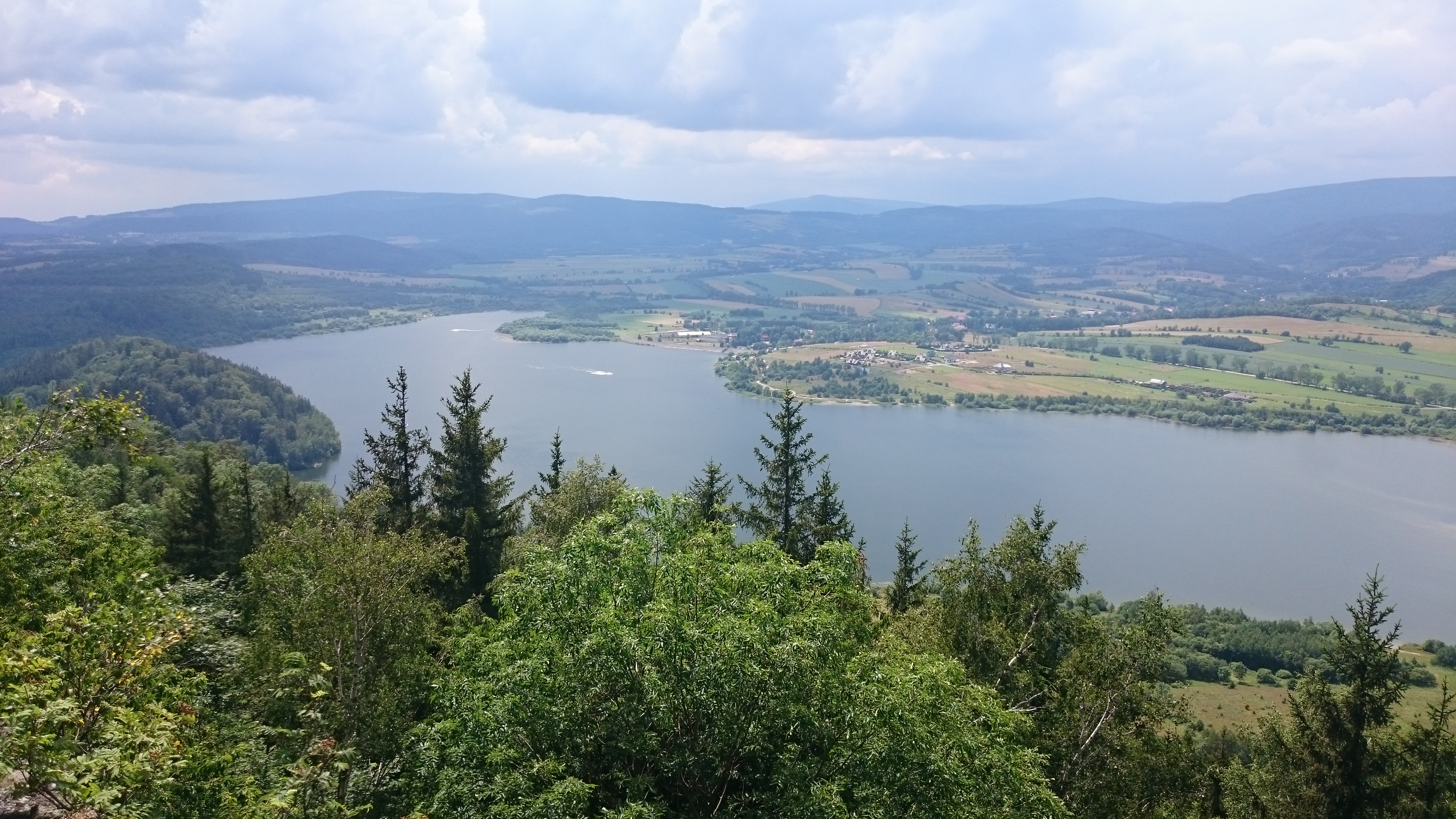 Bukówka Lake - view from Zadzierna